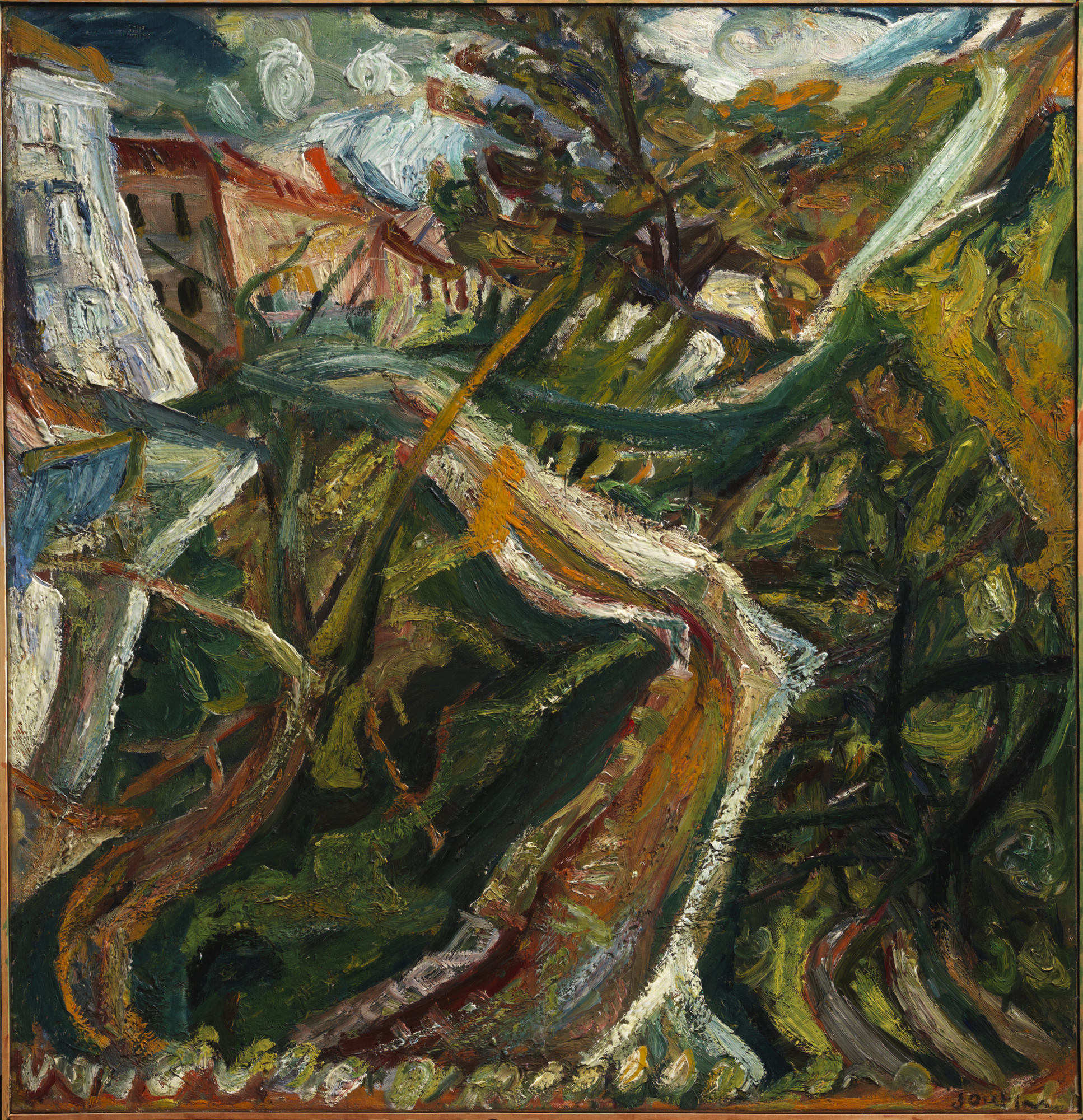 Chaïm Soutine, Russian, active in France, 1893–1943 Chemin de la Fontaine des Tins at Céret, ca. 1920 Oil on canvas 81.3 x 78.7 cm. (32 x 31 in.) frame: 105.3 x 103.6 x 4.7 cm (41 7/16 x 40 13/16 in.) The Henry and Rose Pearlman Foundation, on long-term loan to the Princeton University Art Museum L.1988.62.24